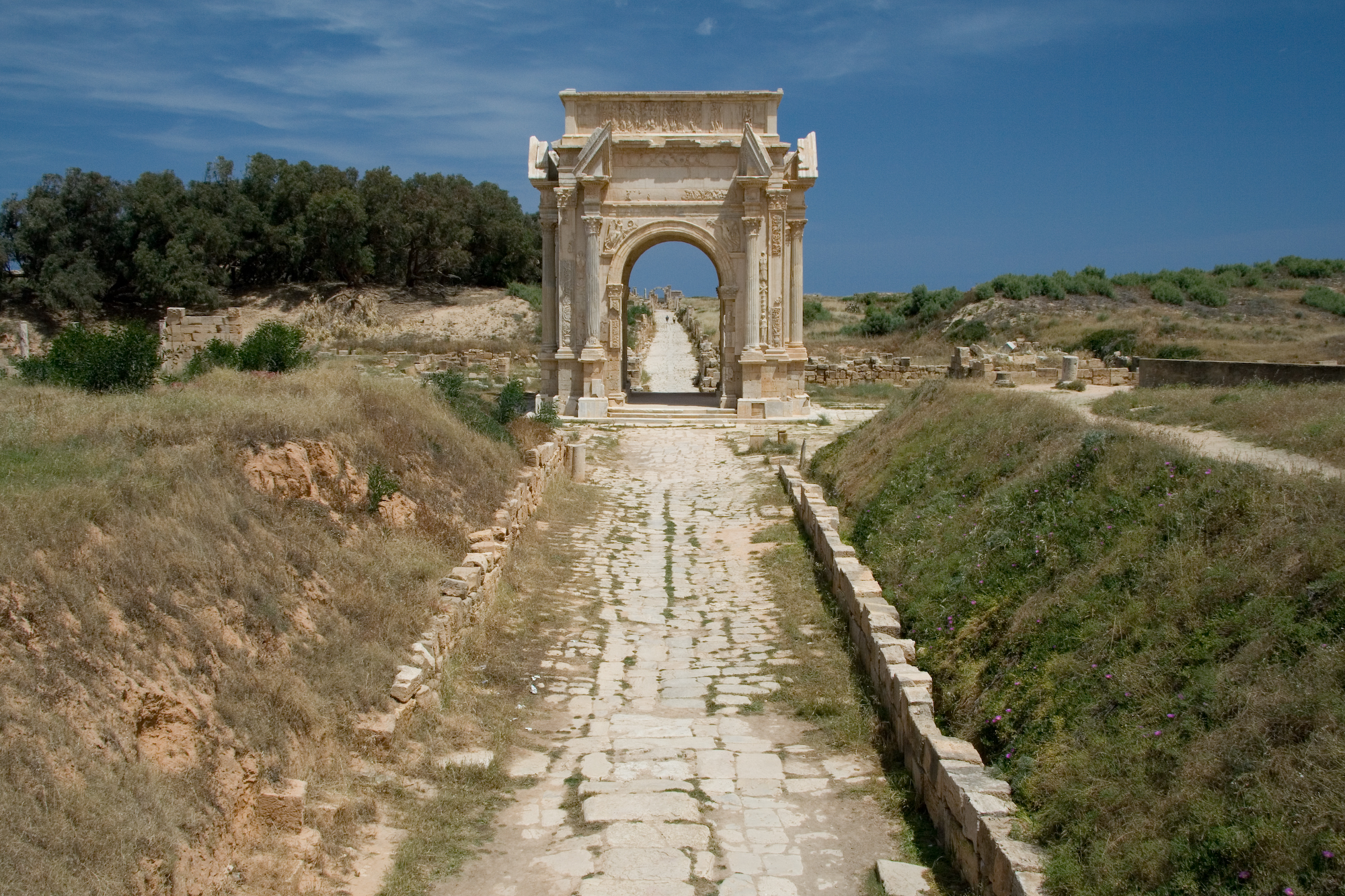 Arch of Roman emperor Lucius Septimius Severus (AD 146-211) in Leptis Magna, the well preserved ancient city along the Mediterranean Sea, located 120 km Est of Tripoli, Libya.